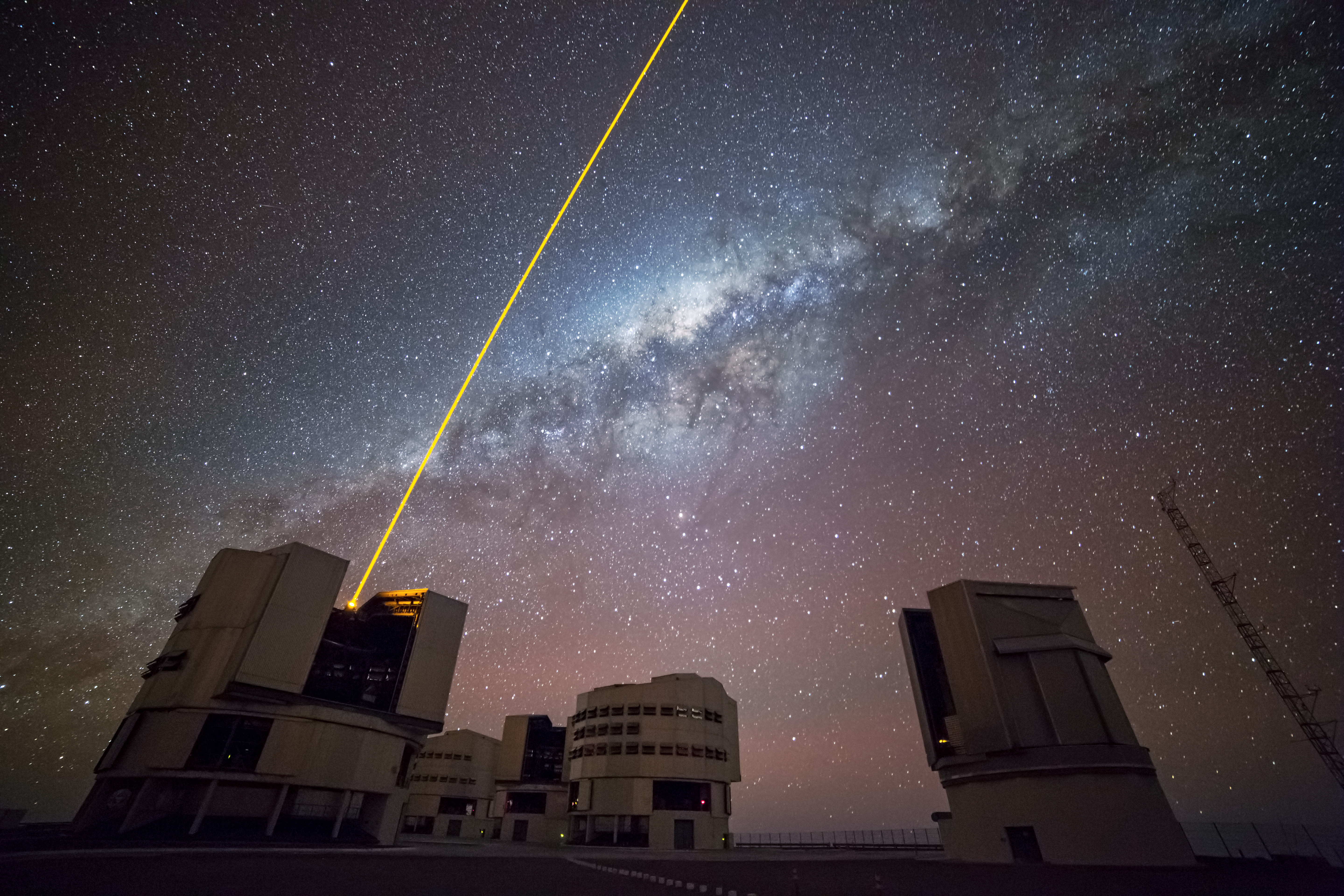 This new image, taken by ESO Photo Ambassador Gianluca Lombardi, shows a stunning array of colours, ranging from the haze of pink dominating the bottom of the frame to the blues and whites of the Milky Way above. The blocks visible at the foreground of the image are the Unit Telescopes of the Very Large Telescope (VLT), based at ESO's Paranal Observatory in Chile. Cutting through the scene is a harsh yellow slash. This prominent streak is the VLT's laser guide star, which is part of the telescope's adaptive optics system that compensates for the blurring effects of the atmosphere. Light from the sky is distorted as it travels through the atmosphere due to local variations. Whenever possible, astronomers hunt down a bright star to calibrate their observations, but when there is no suitable star near enough to their target, they have to rely on an artificial one — created by pointing a bright, piercing laser up into the night, as shown in this image.